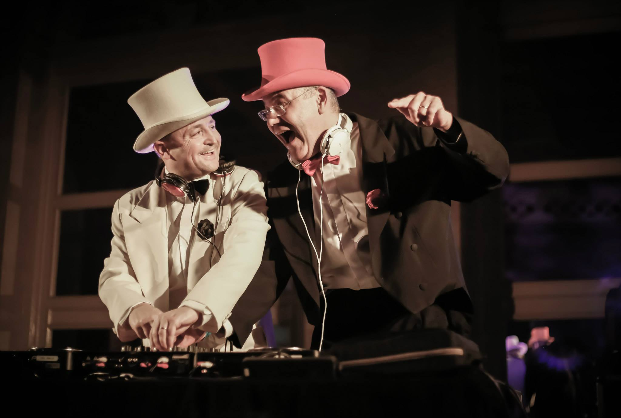 Bart&Baker perform at the Bal de la Bourse 2014 in Paris